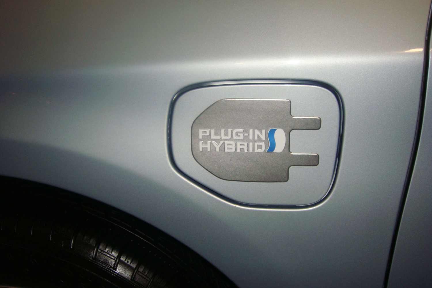 2012 Toyota Prius Plug-in Hybrid charging port (2011 Washington Auto Show)